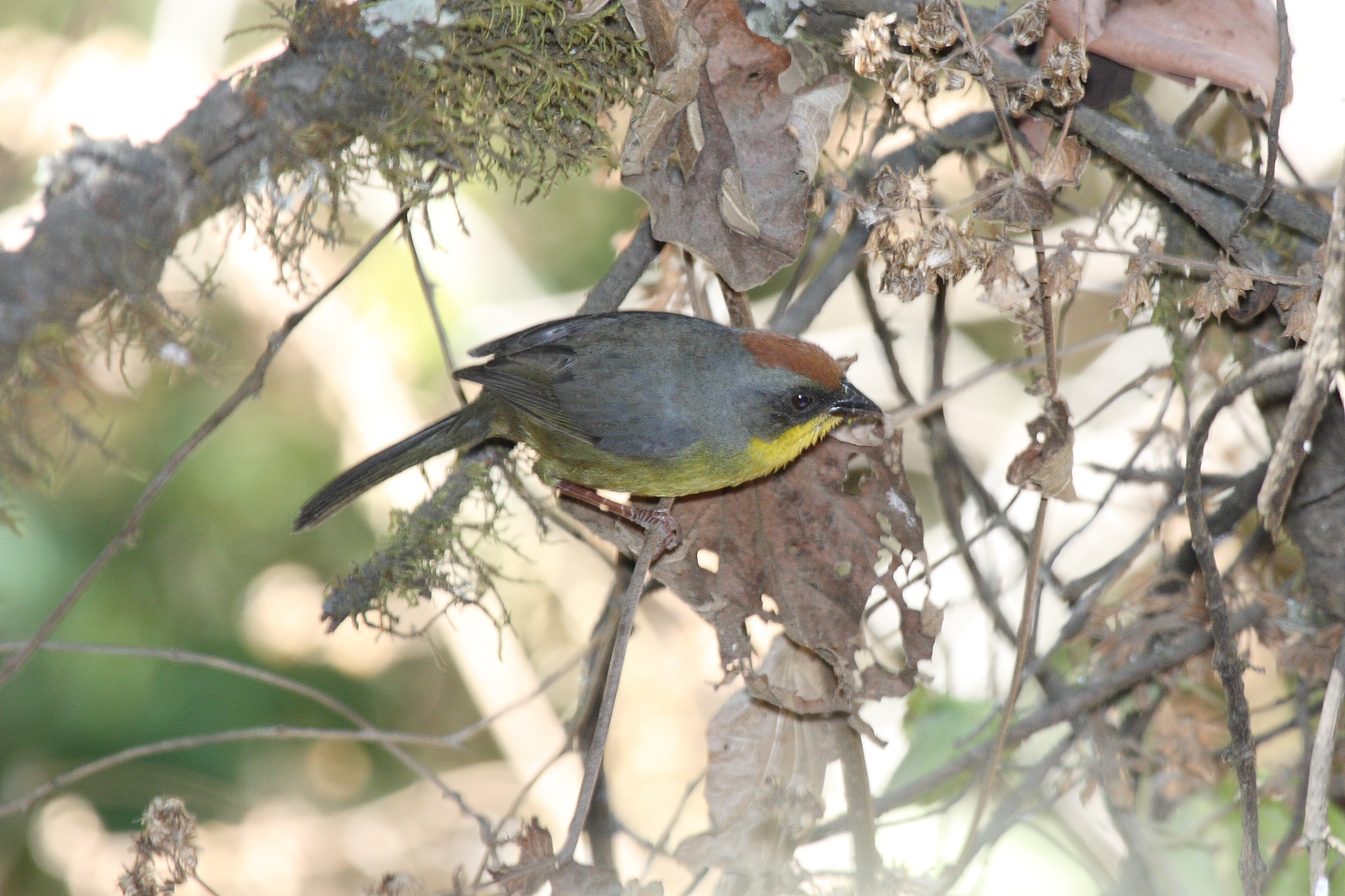 Rufous-capped Brush-finch (Atlapetes pileatus) photographed at La Cumbra, Mexico, south of Oaxaca.